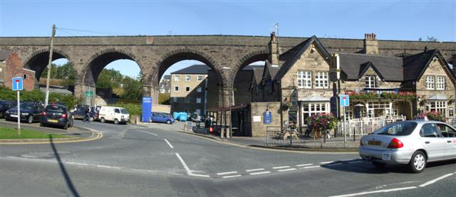 Viaduct at Buxton It carries the railway line across